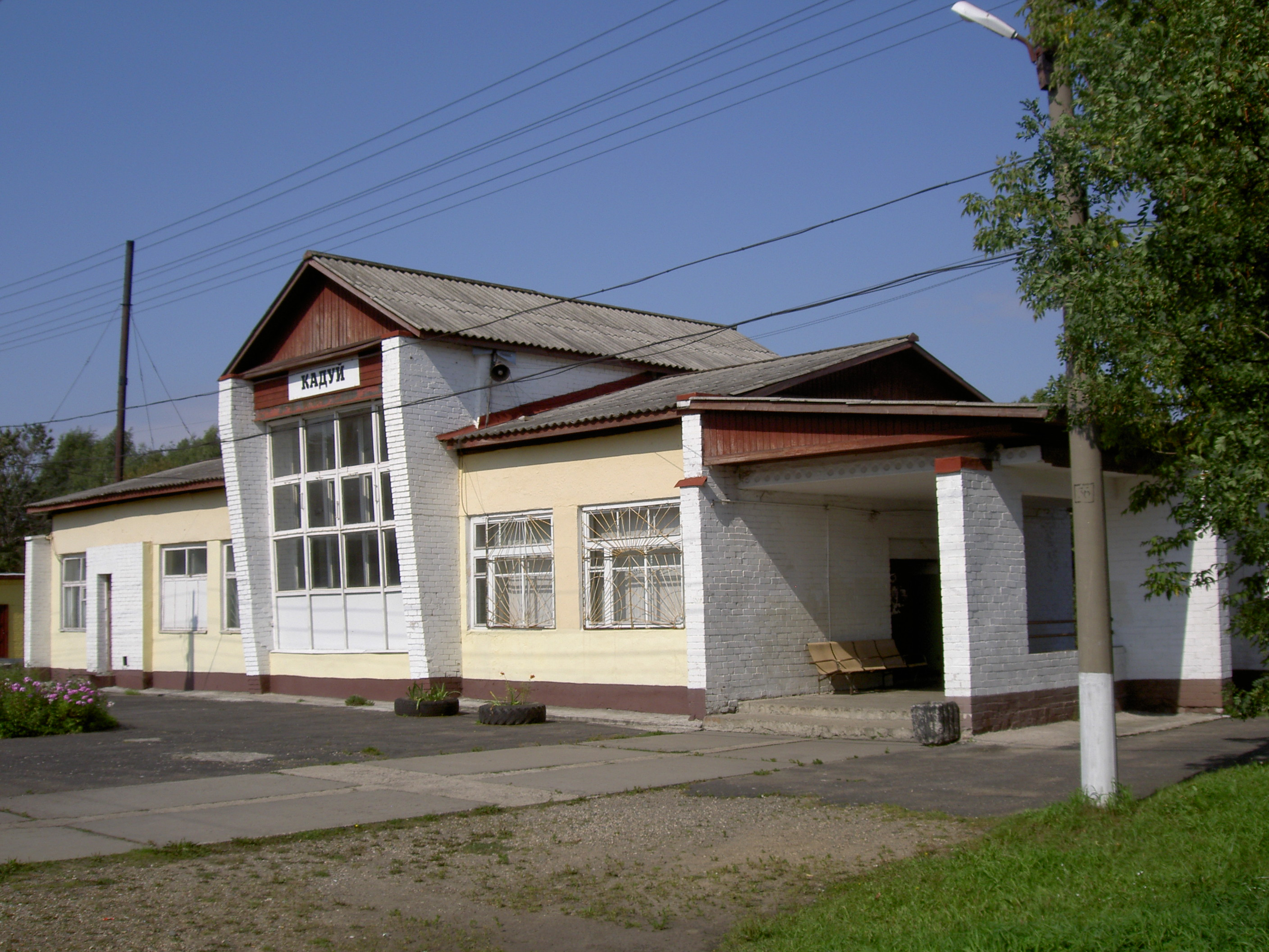 Kaduy station. Rail terminal